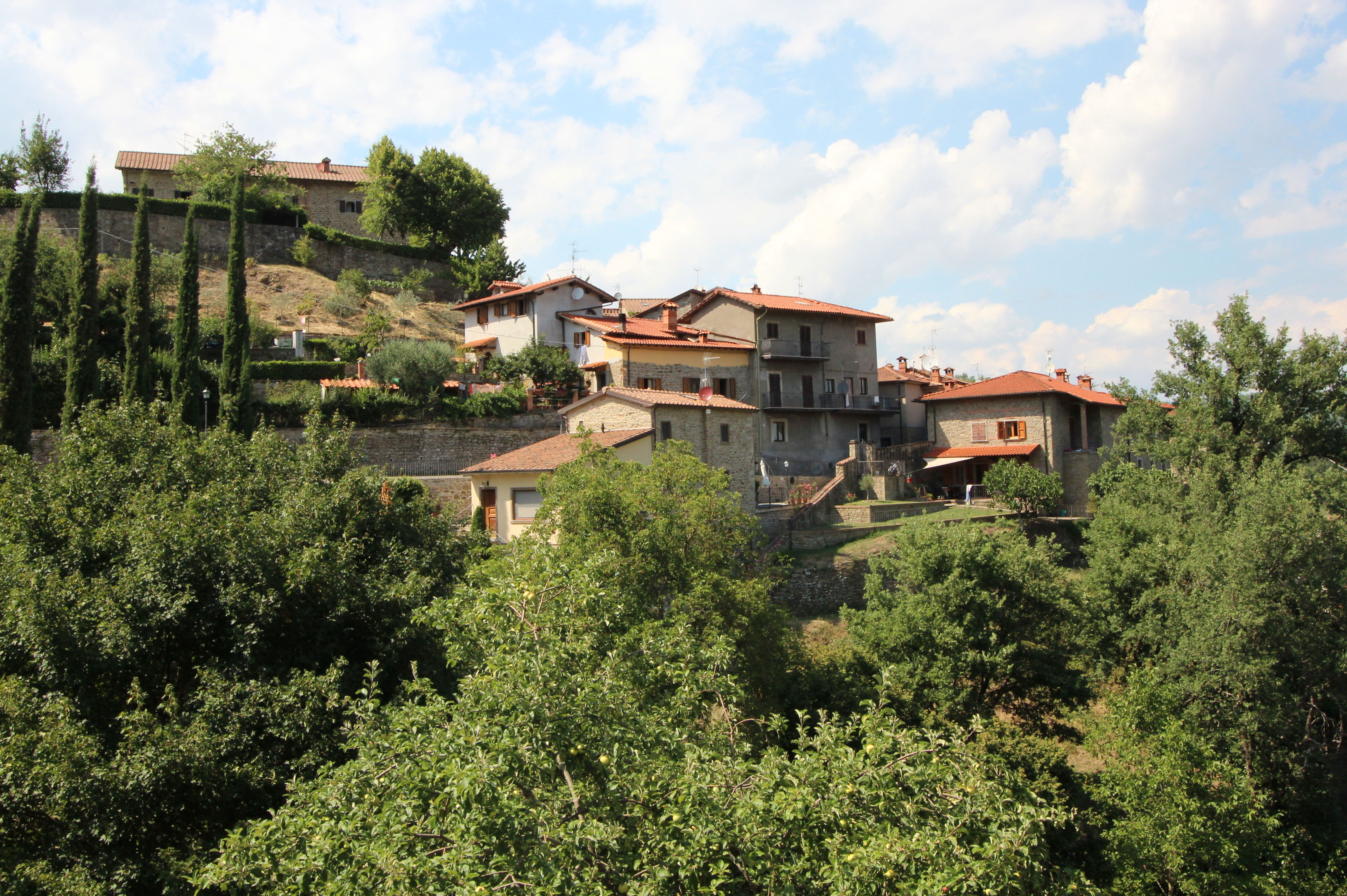 Ortignano, hamlet of Ortignano Raggiolo, Casentino, Province of Arezzo, Tuscany, Italy